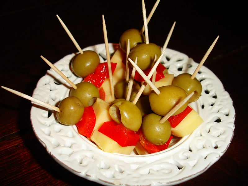 Folklore of Sanok